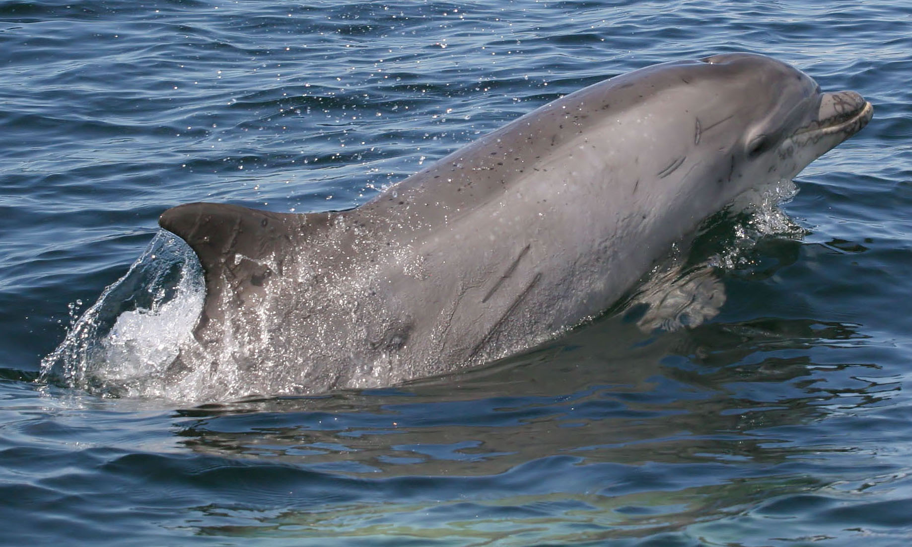 Scarred Bottlenose Dolphin, Cromarty Firth, Scotland